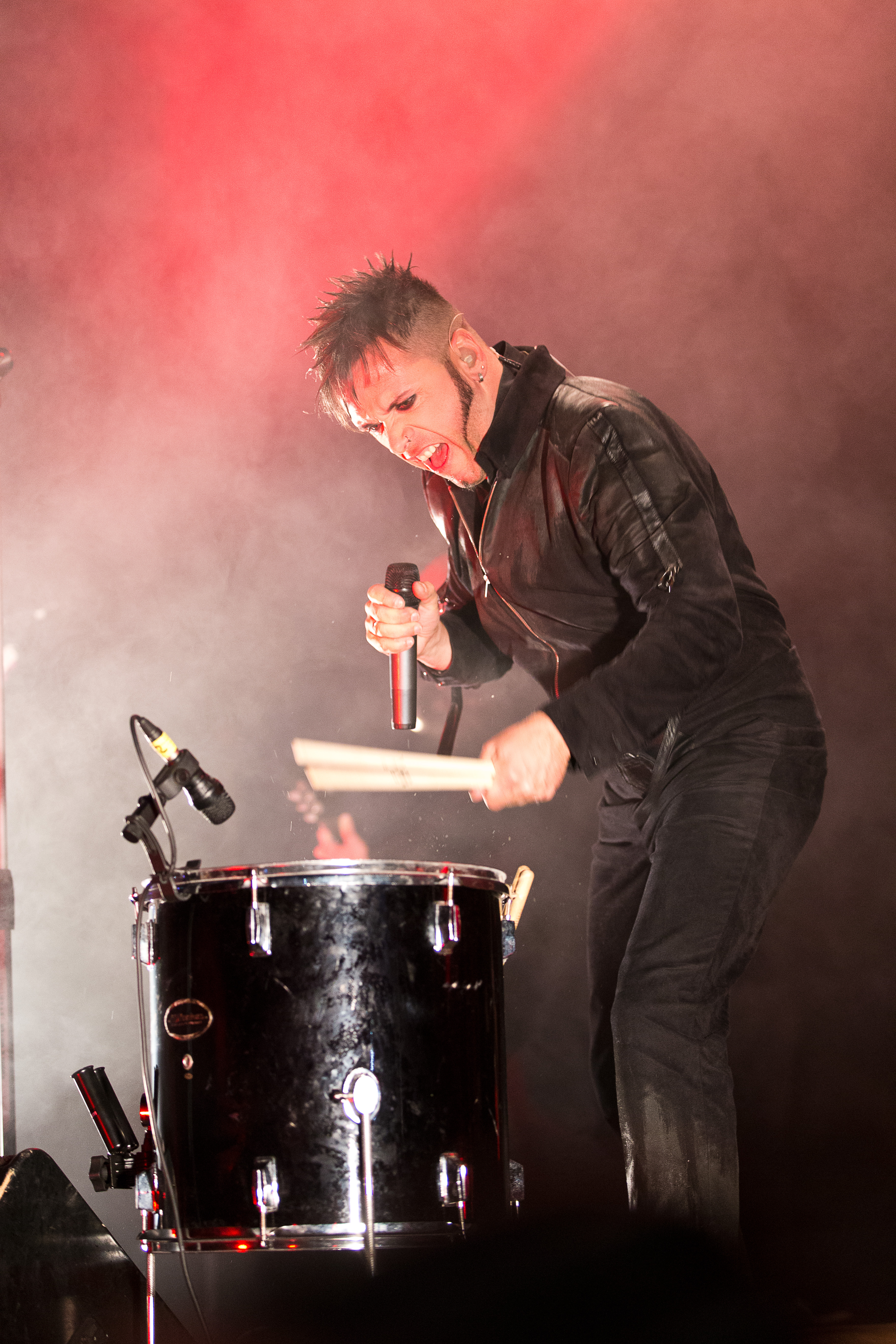 The German rock band Oomph! at the Nocturnal Culture Night 10 2015 in Deutzen/Germany.